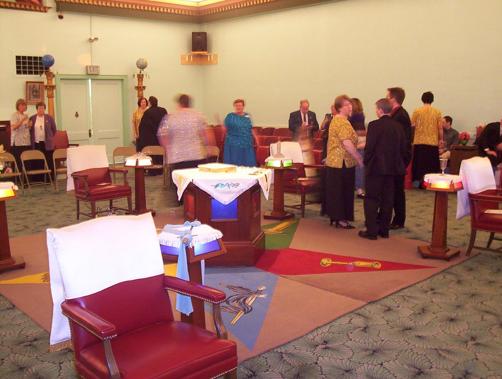 Delta Chapter #109, in Tukwila, WA, set up for an Installation. Shows Chapter room layout.